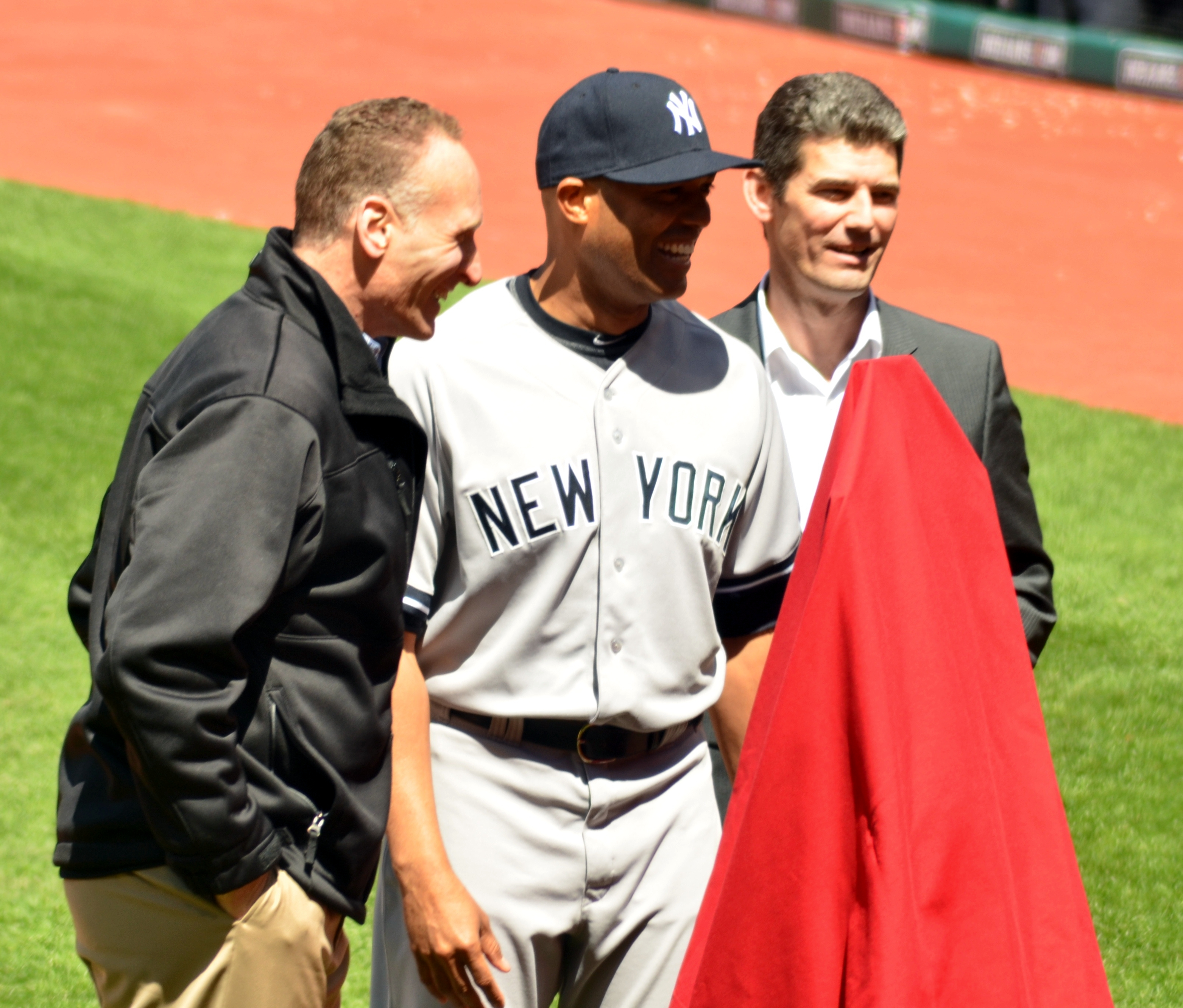 Mark Shapiro and Mariano Rivera